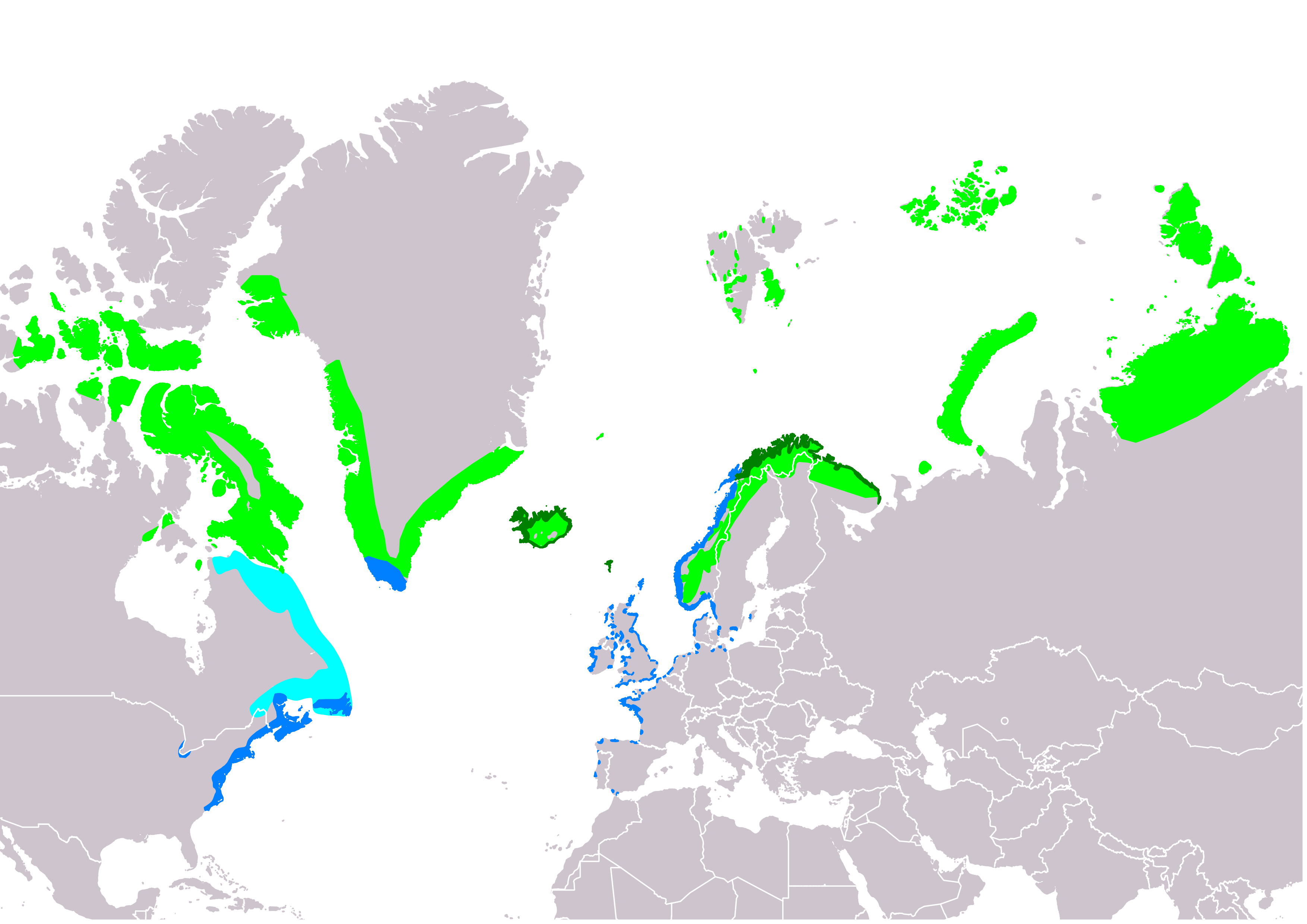 Map of purple sandpiper (Calidris maritima) according to IUCN version 2018.2 , Legend: Extant, breeding (#00FF00), Extant, resident (#008000), Extant, passage (#00FFFF), Extant, non-breeding (#007FFF)